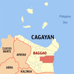 Map of Cagayan showing the location of Baggao